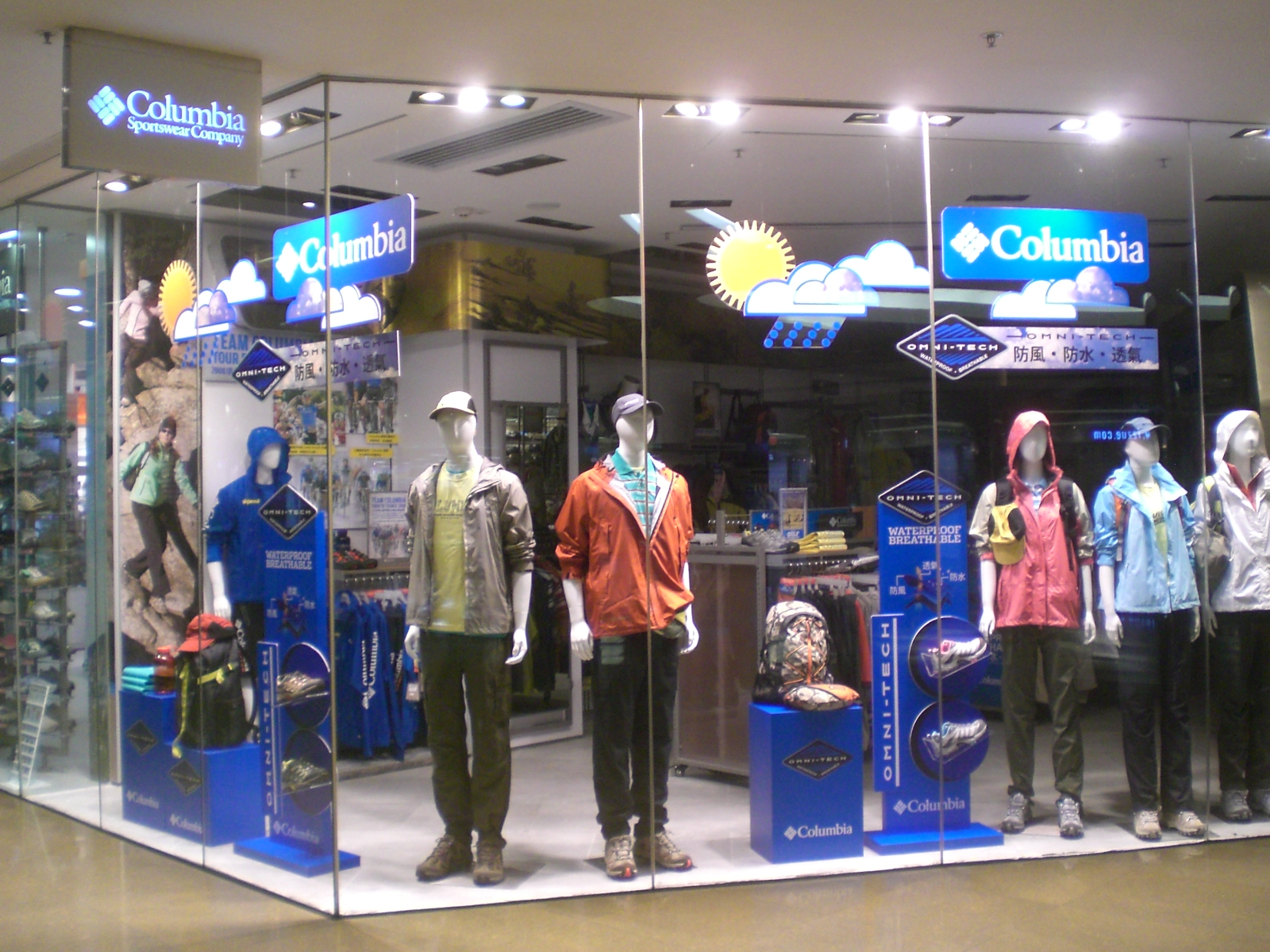 太古城中心美國哥倫比亞運動服裝公司